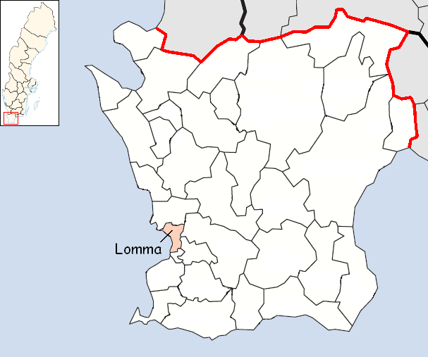 Lomma Municipality in Scania, Sweden Designed by me. Mere outlines are a PD source from